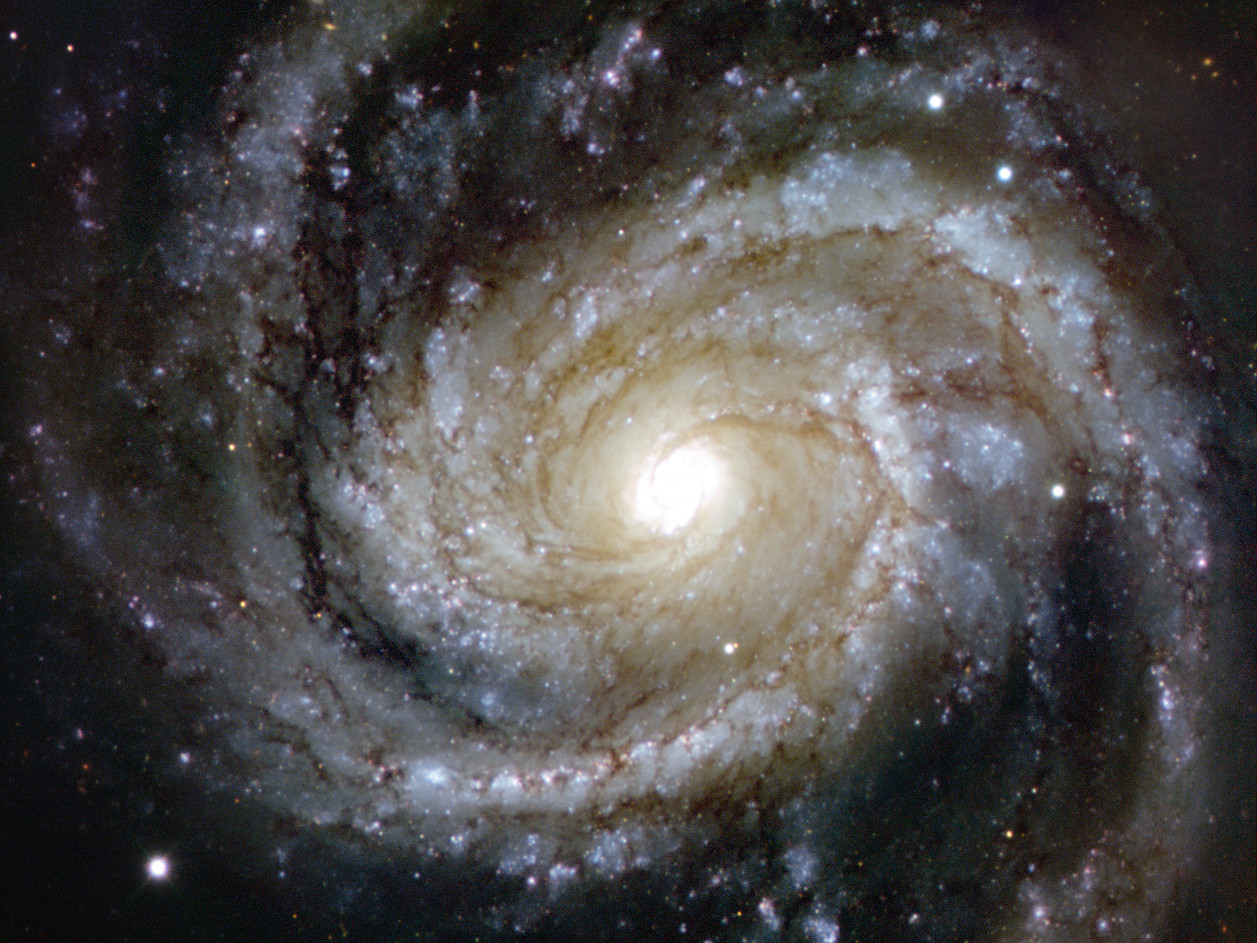 Spiral galaxies are usually very aesthetically appealing objects, and never more so than when they appear face-on. And this image is a particularly splendid example: it is the grand design spiral galaxy Messier 100, located in the southern part of the constellation of Coma Berenices, and lying about 55 million light-years from Earth. While Messier 100 shows very well defined spiral arms, it also displays the faintest of bar-like structures in the centre, which classifies this as type SAB. Although it is not easily spotted in the image, scientists have been able to confirm the bar’s existence by observing it in other wavelengths. This very detailed image shows the main features expected in a galaxy of this type: huge clouds of hydrogen gas, glowing in red patches when they re-emit the energy absorbed from newly born, massive stars; the uniform brightness of older, yellowish stars near the centre; and black shreds of dust weaving through the arms of the galaxy. Messier 100 is one of the brightest members of the Virgo Cluster, which is the closest cluster of galaxies to our galaxy, the Milky Way, containing over 2000 galaxies, including spirals, ellipticals, and irregulars. This picture is a combination of images from the FORS instrument on ESO’s Very Large Telescope at Paranal Observatory in Chile, taken with red (R), green (V) and blue (B) filters.